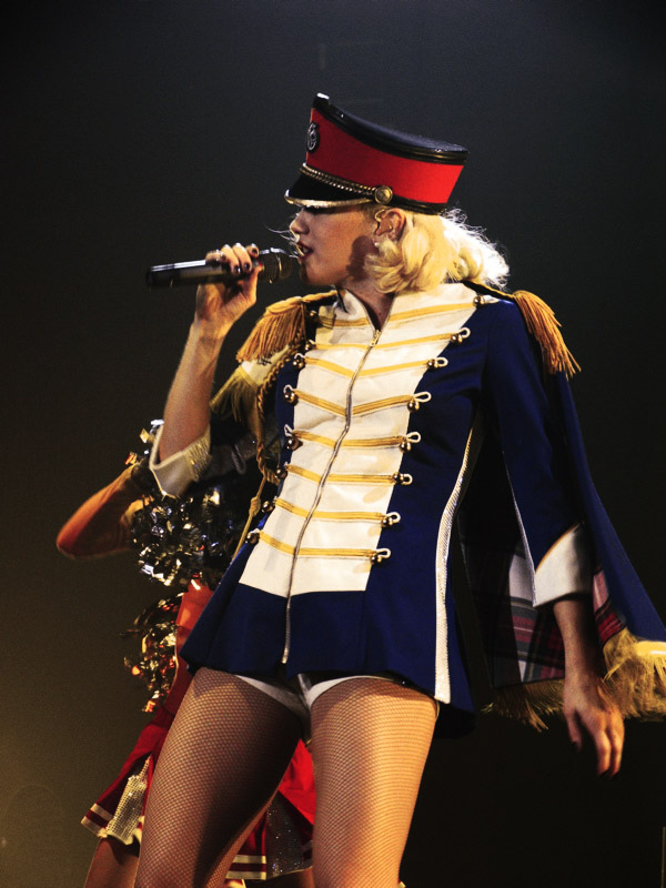 Gwen Stefani performing "Hollaback Girl" in Duluth, Georgia, United Statesi ain't no hollaback guurrrrrrl